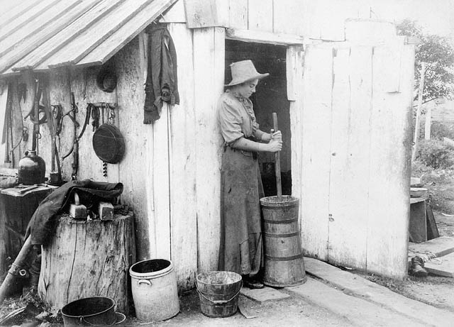 Unidentified woman with churn near Long Branch, Ont.